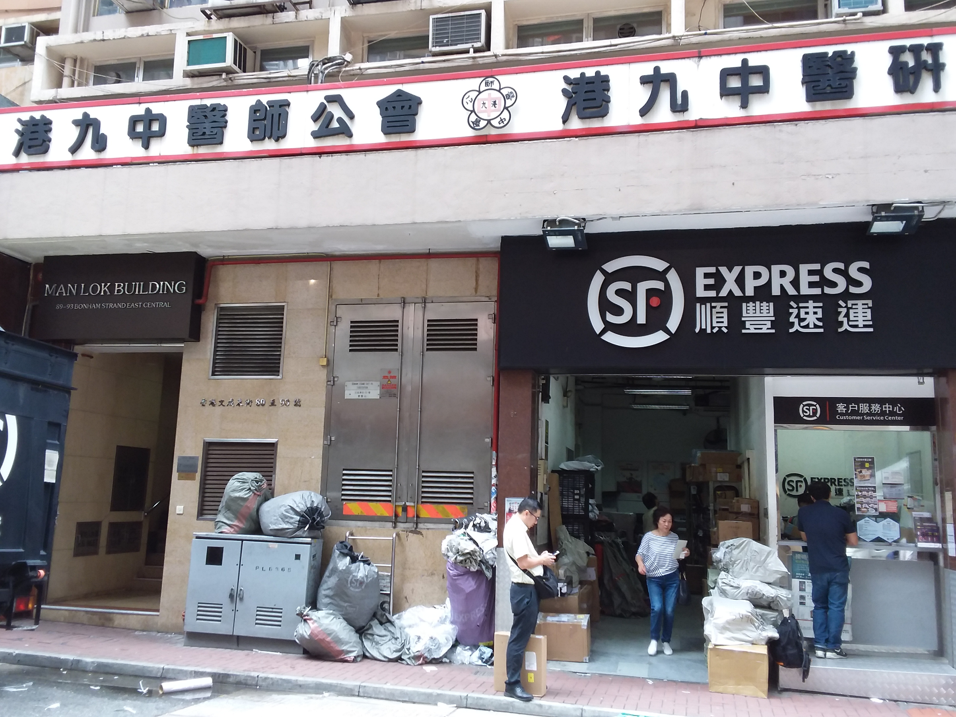 HK Sheung Wan 文咸街 Bonham Strand shop SF Express August 2018